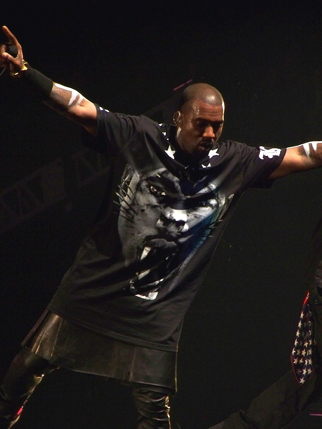 Kanye West performing at Staples Center on December 11, 2011 in Los Angeles on the Watch the Throne Tour.